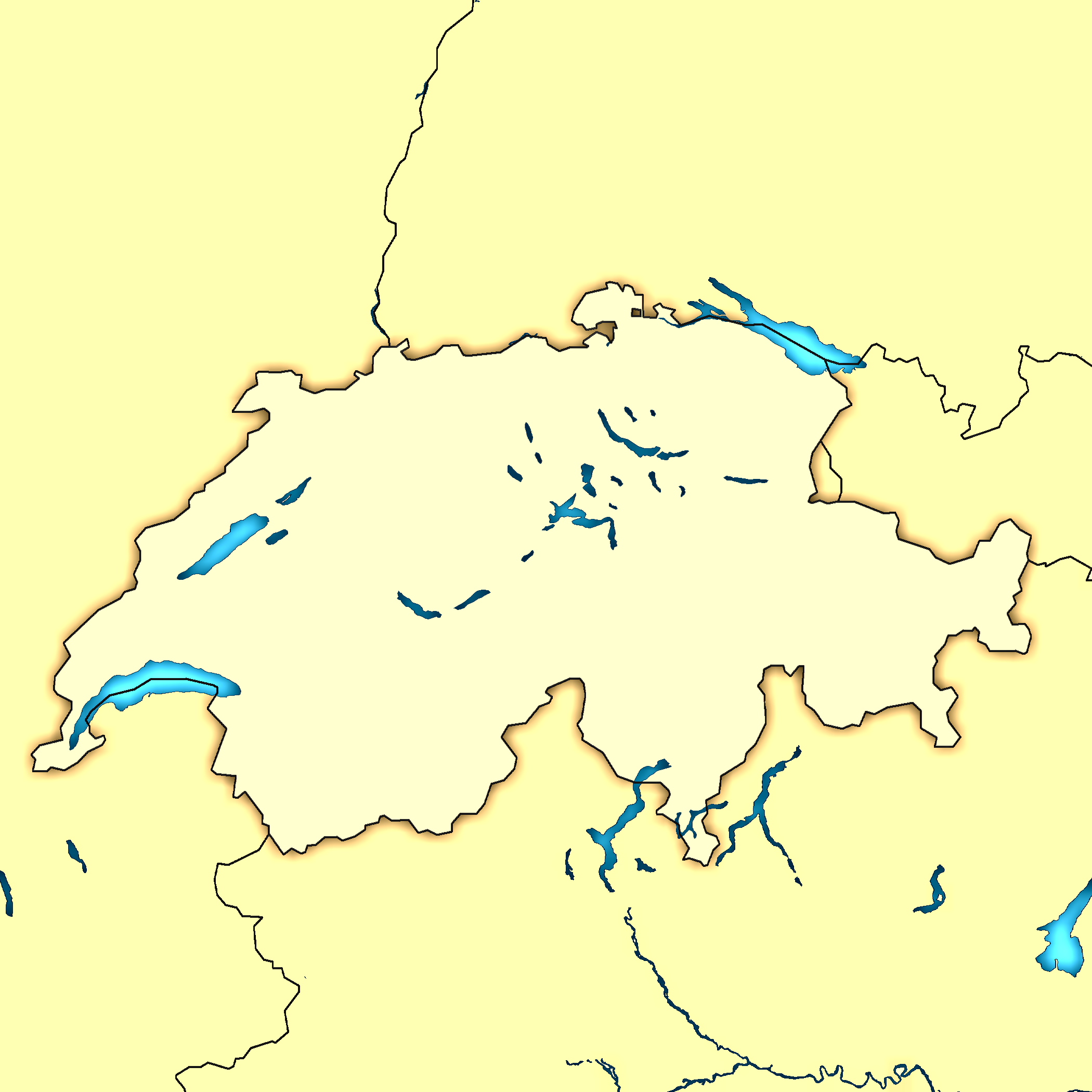 A blank map of Switzerland (modern style) with most important topographic features (lakes, rivers)